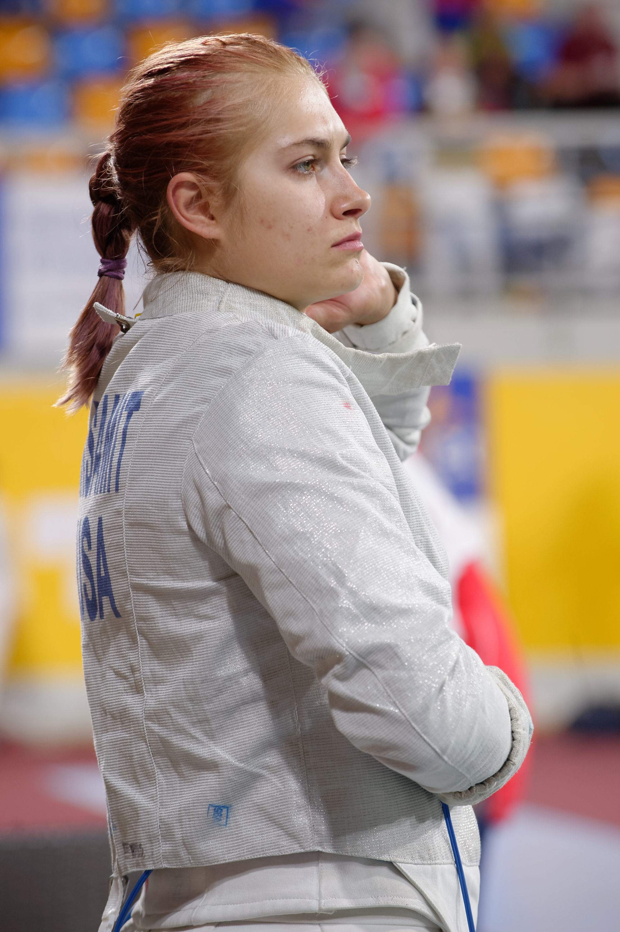 The United States' Monica Aksamit in qualifications for the 2015–16 Orléans World Cup in women's sabre.